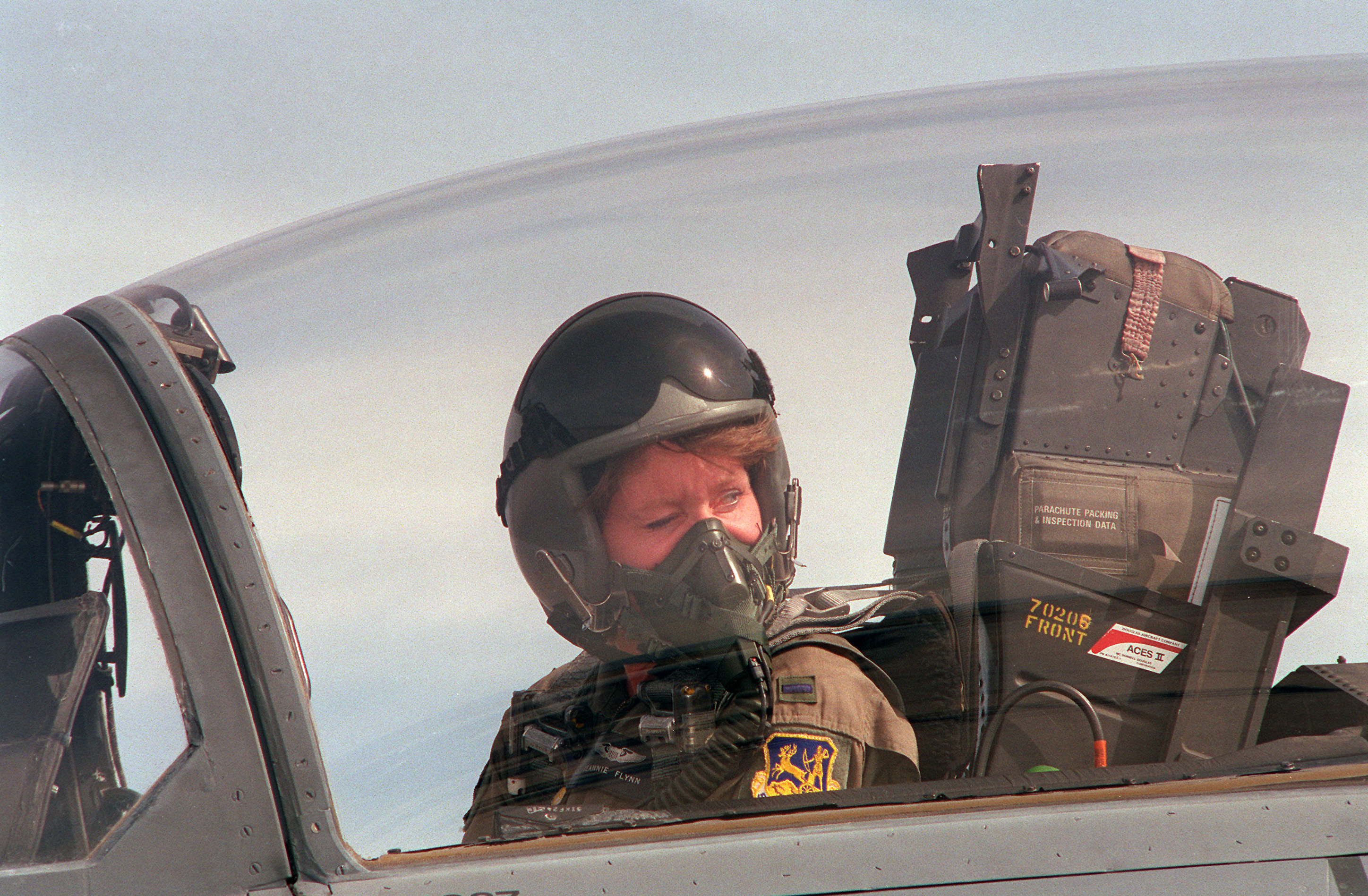 A close up of 1st Lt. Jeannie Flynn, the first F-15E female pilot, sits in the cockpit as she performs engine start. 1st Lt. Flynn will be assigned to the 555th Fighter Squadron for six months of tactical training.